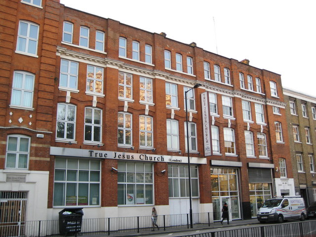 Hoxton: True Jesus Church, East Road, N1 The True Jesus Church was established in Beijing in China in 1917. According to their website their essential doctrines are: "One True God, Salvation, Water Baptism, Baptism of the Holy Spirit, Washing of Feet, Holy Communion, Sabbath (Saturday), and Christ's Second Coming."